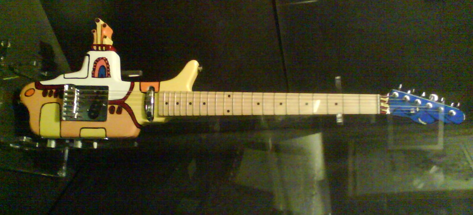 Limited series Telecaster promoting Beatles.s Yellow submarine record.